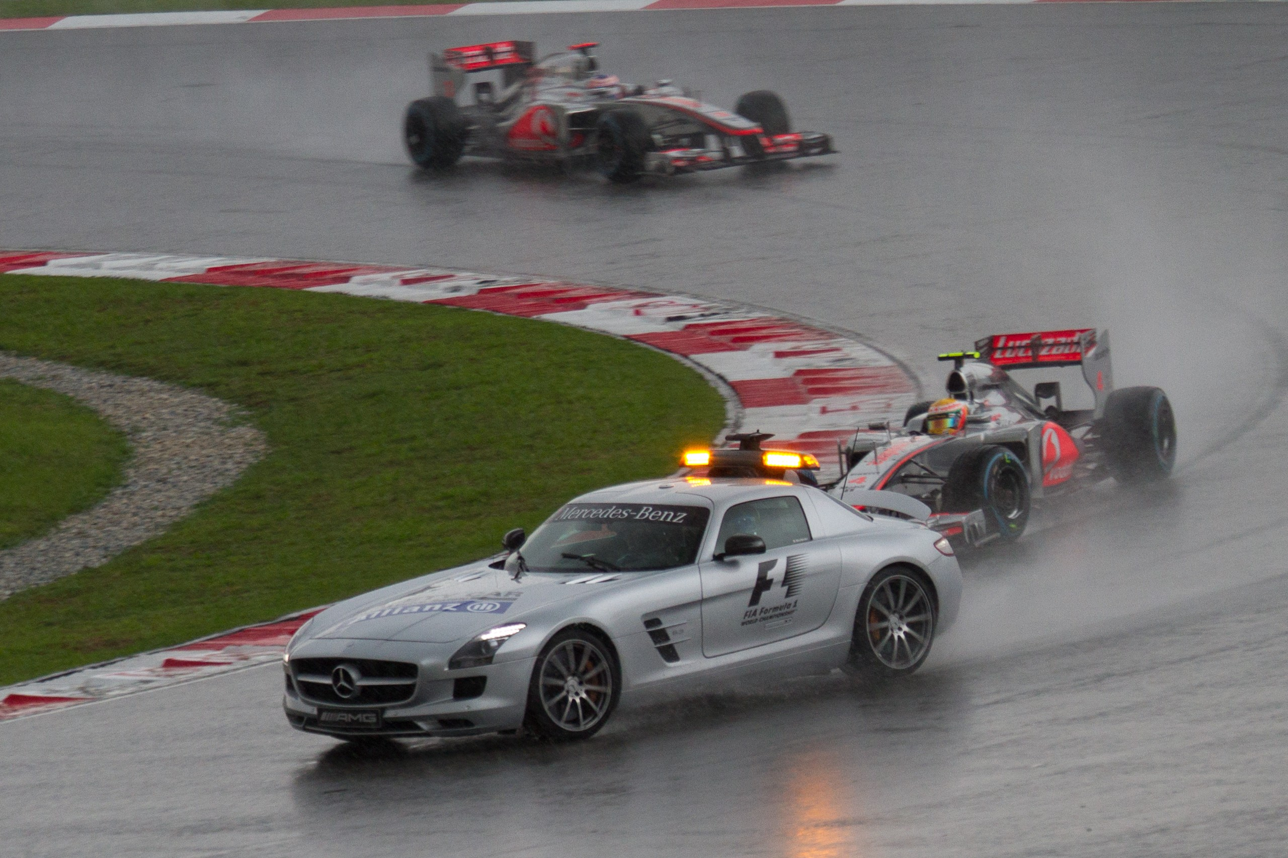 Formula One 2012 Rd.2 Malaysian GP: Safety Car with Lewis Hamilton and Jenson Button (McLaren) before the race is temporarily suspended.